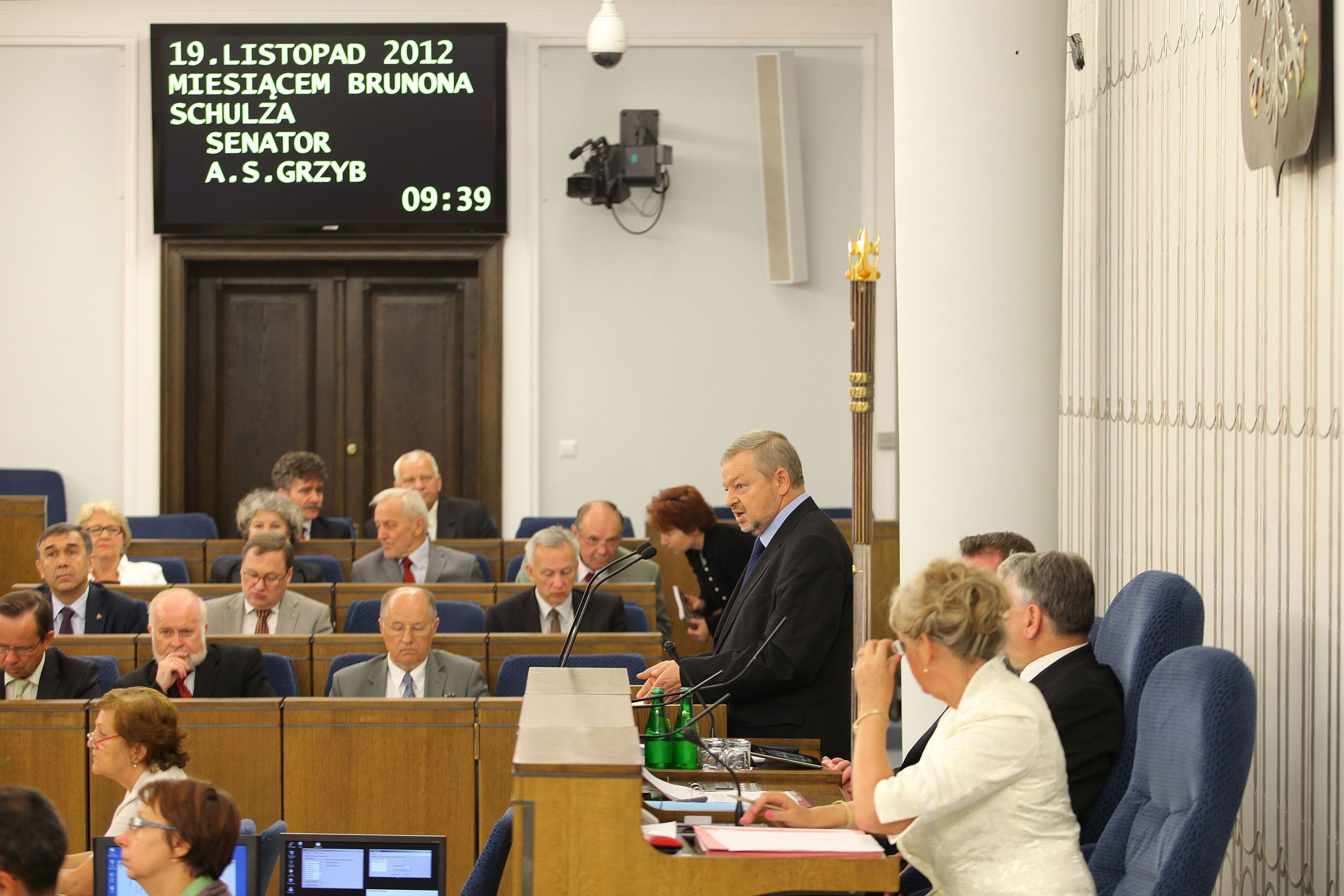 Senator Andrzej Grzyb. 17th sitting of the Polish Senate